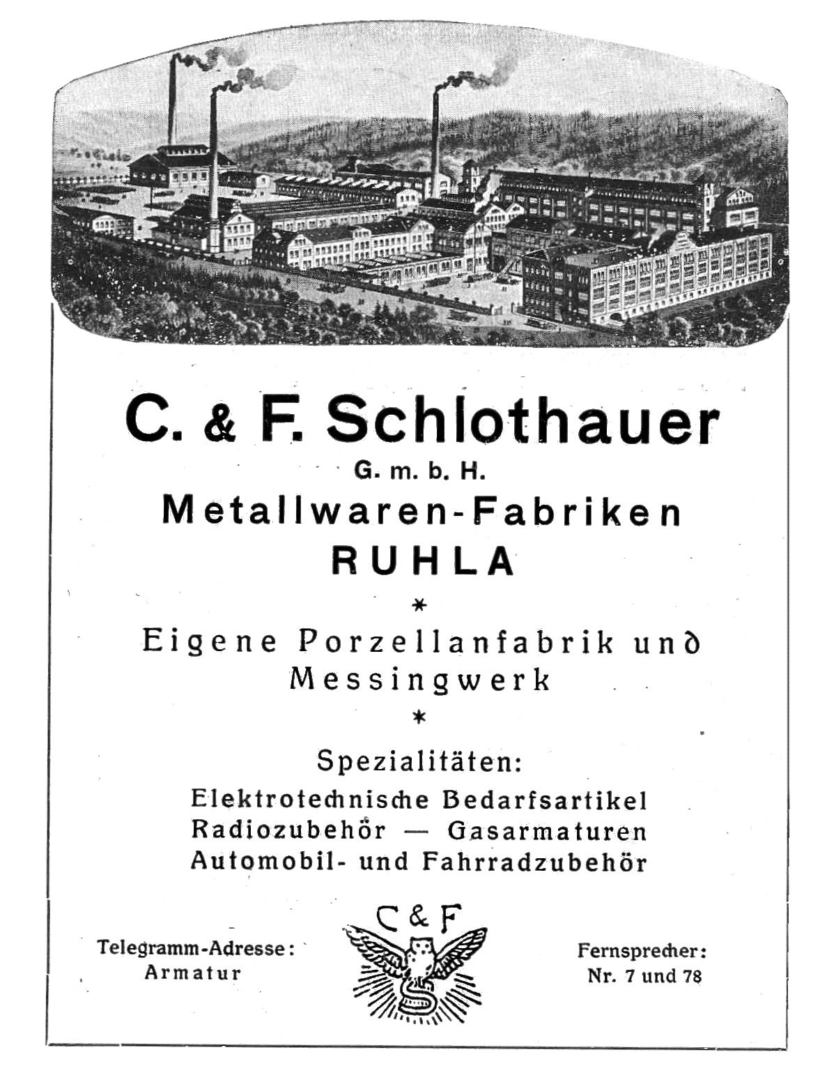 Adversiments for the Company "C. & F. Schlothauer GmbH Metallwaren-Fabriken Ruhla".